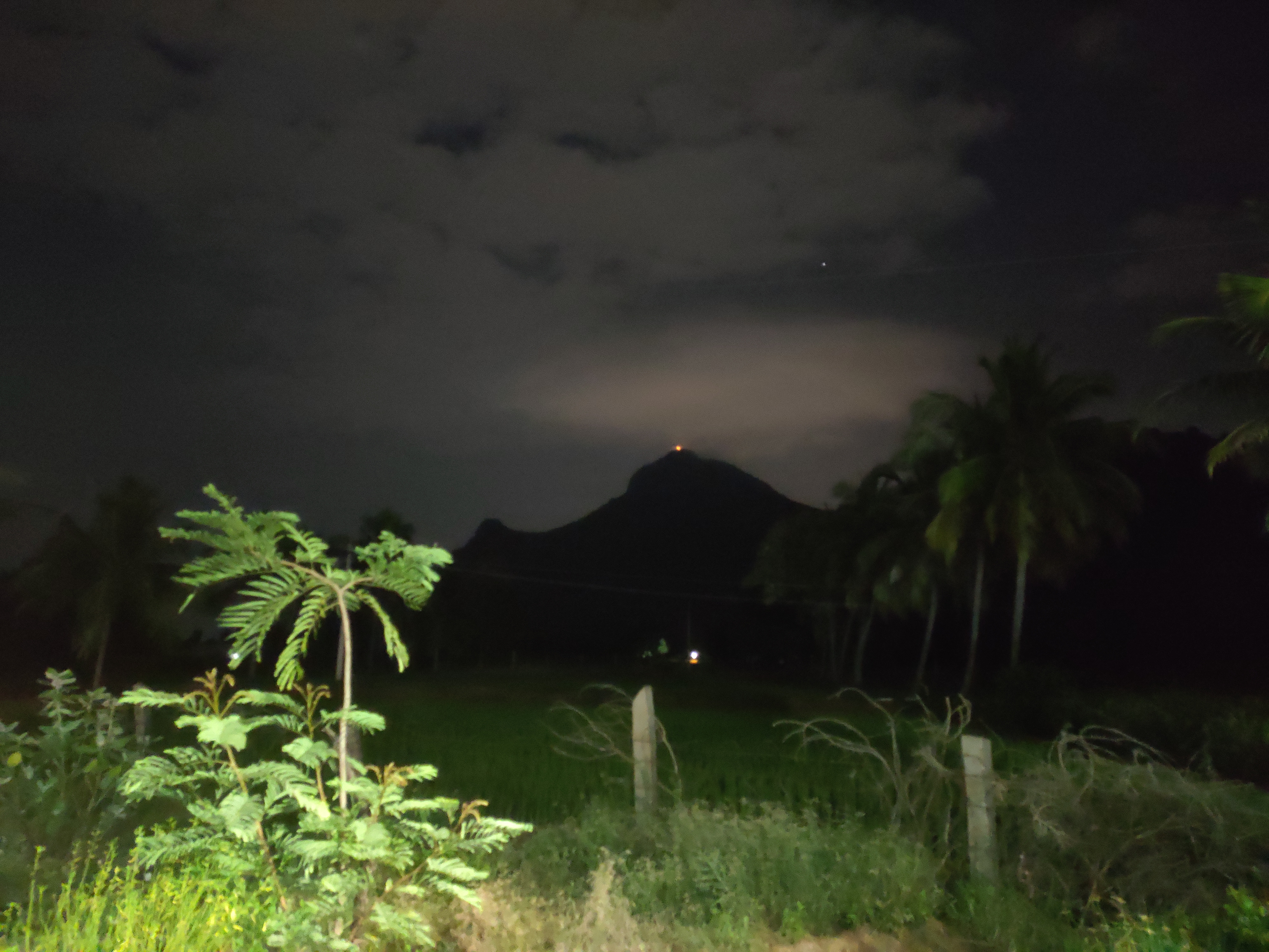 A view of the sacred hill from the West, with the Deepam burning on the summit.